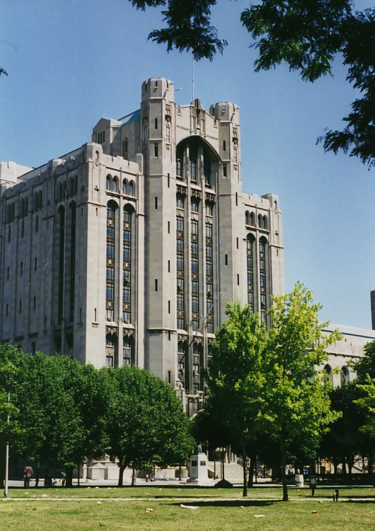 The Detroit Masonic Temple (built in 1922) in Detroit, Michigan, United States, is listed on the US National Register of Historic Places (NRHP). It was designed by architect George Mason.